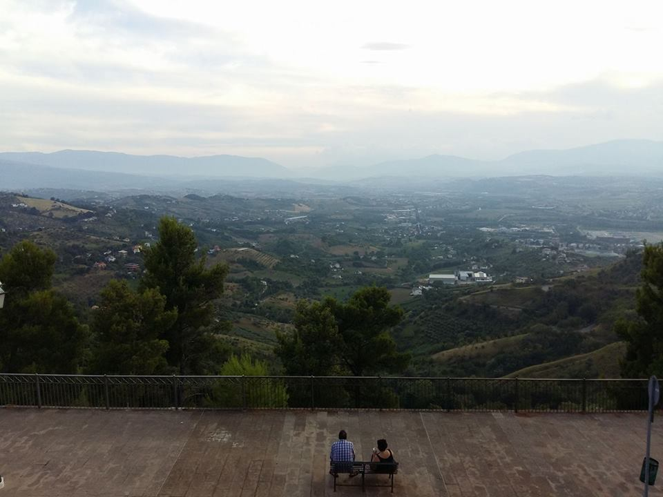 View of Pescara Valley from Civitella neighborhood